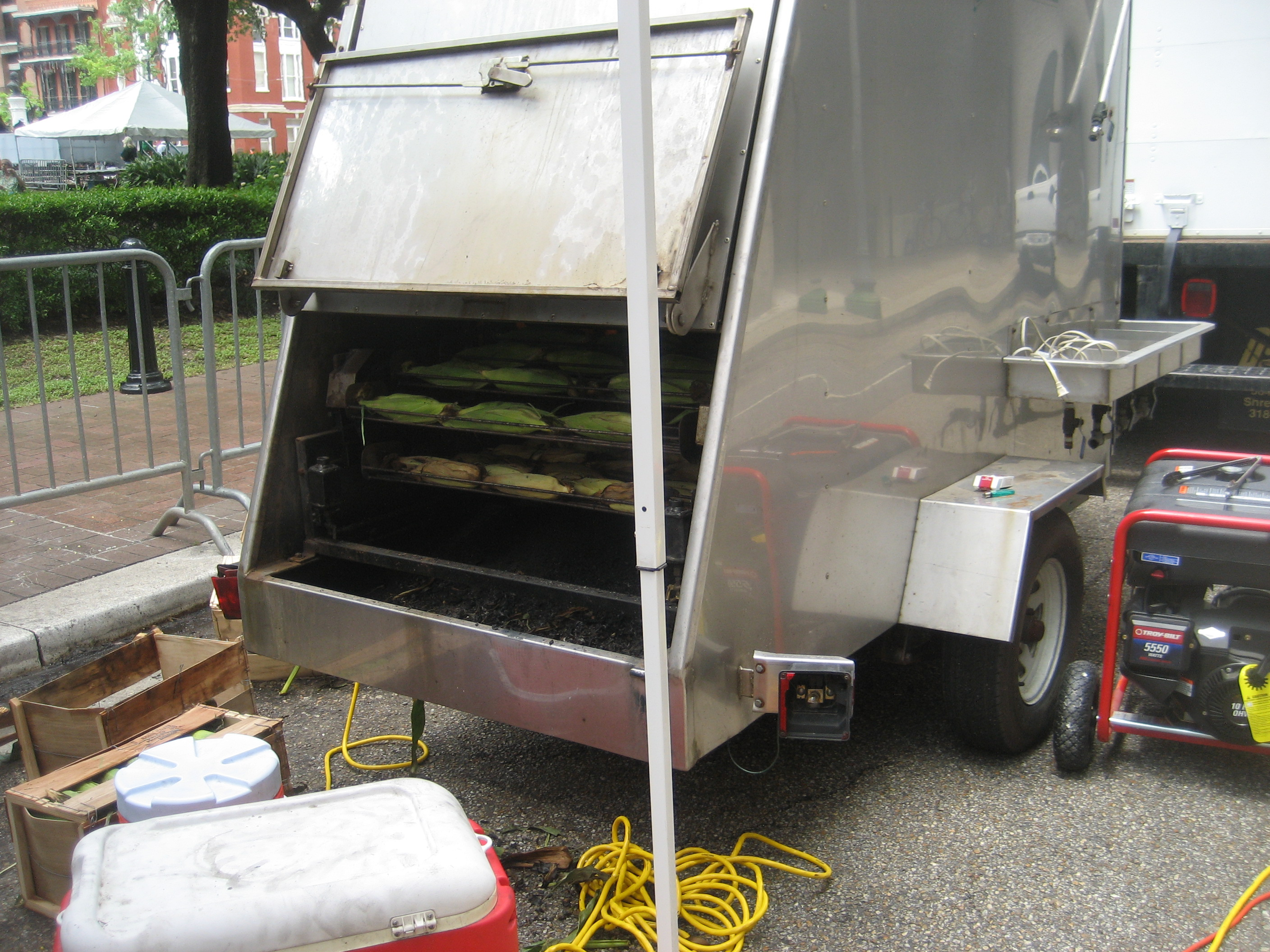 New Orleans, Louisiana. Festivities marking inauguration of new mayor Mitch Landrieu and the New Orleans City Council, Lafayette Square.